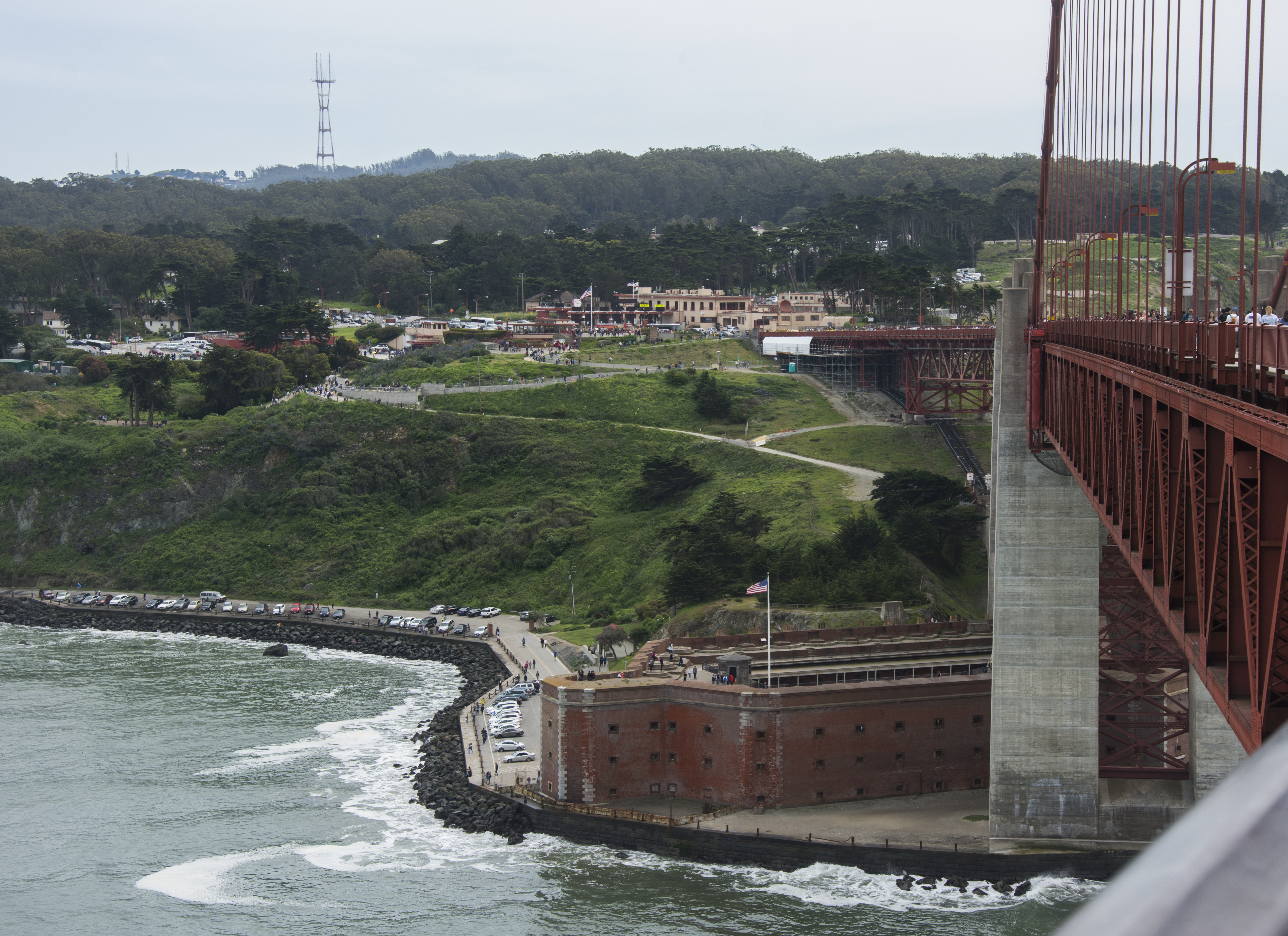 At the Golden Gate Bridge deck, looking toward Fort Point.